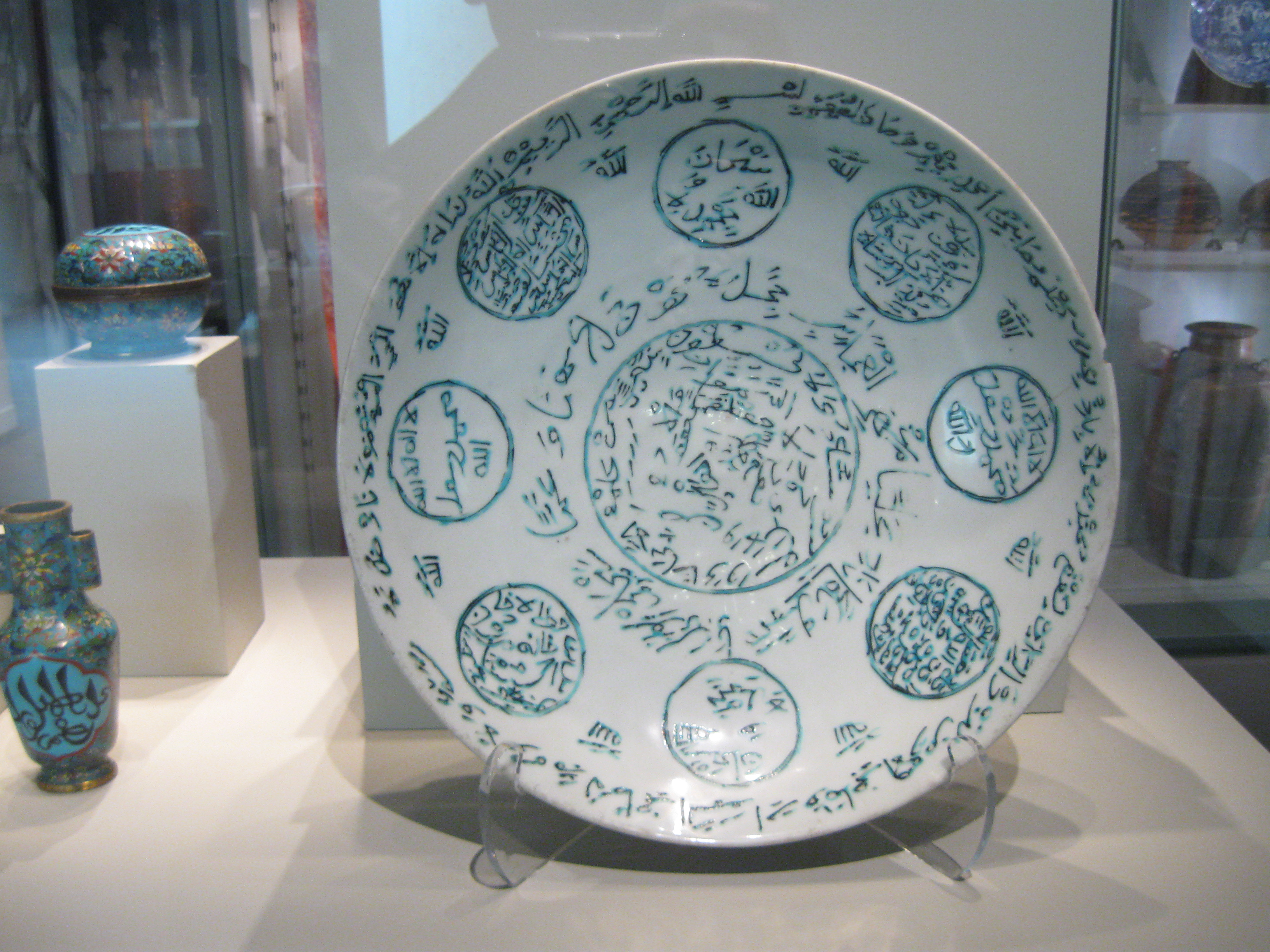 This 17th century Ming dynasty ceramic plate originally came from Fujian province, China. It was likely ordered by the Sultans of Muslim Aceh in North-West Indonesia since they bear cursive Arabic script including invocations to Allah. This object was a gift to the UBC Museum of Anthropology in Vancouver, Canada, by the Ismaili Muslim Community.